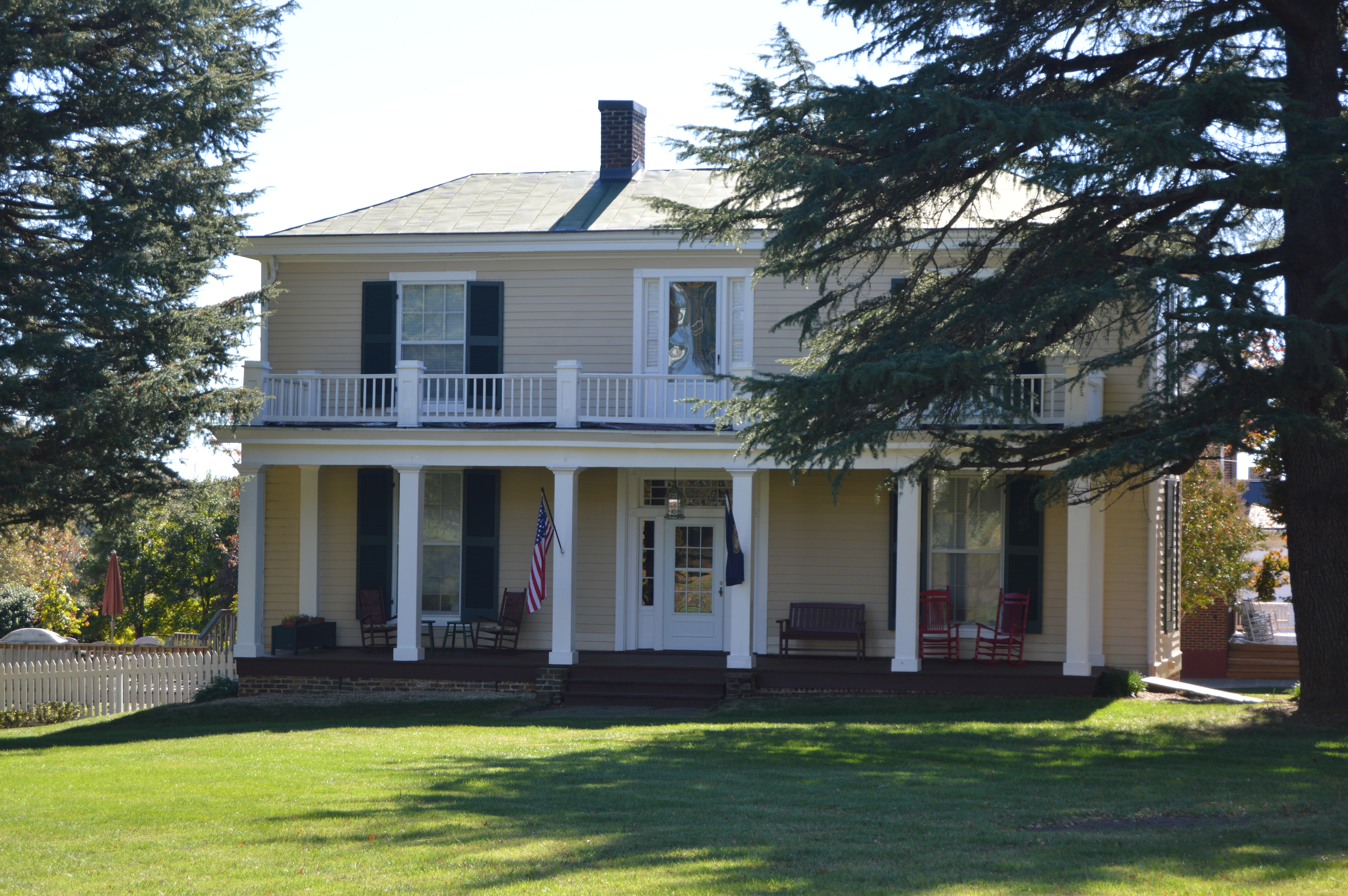 Front of the Greer House, located at 206 E. Court Street in Rocky Mount, Virginia, United States. Built in 1861, it is listed on the National Register of Historic Places.